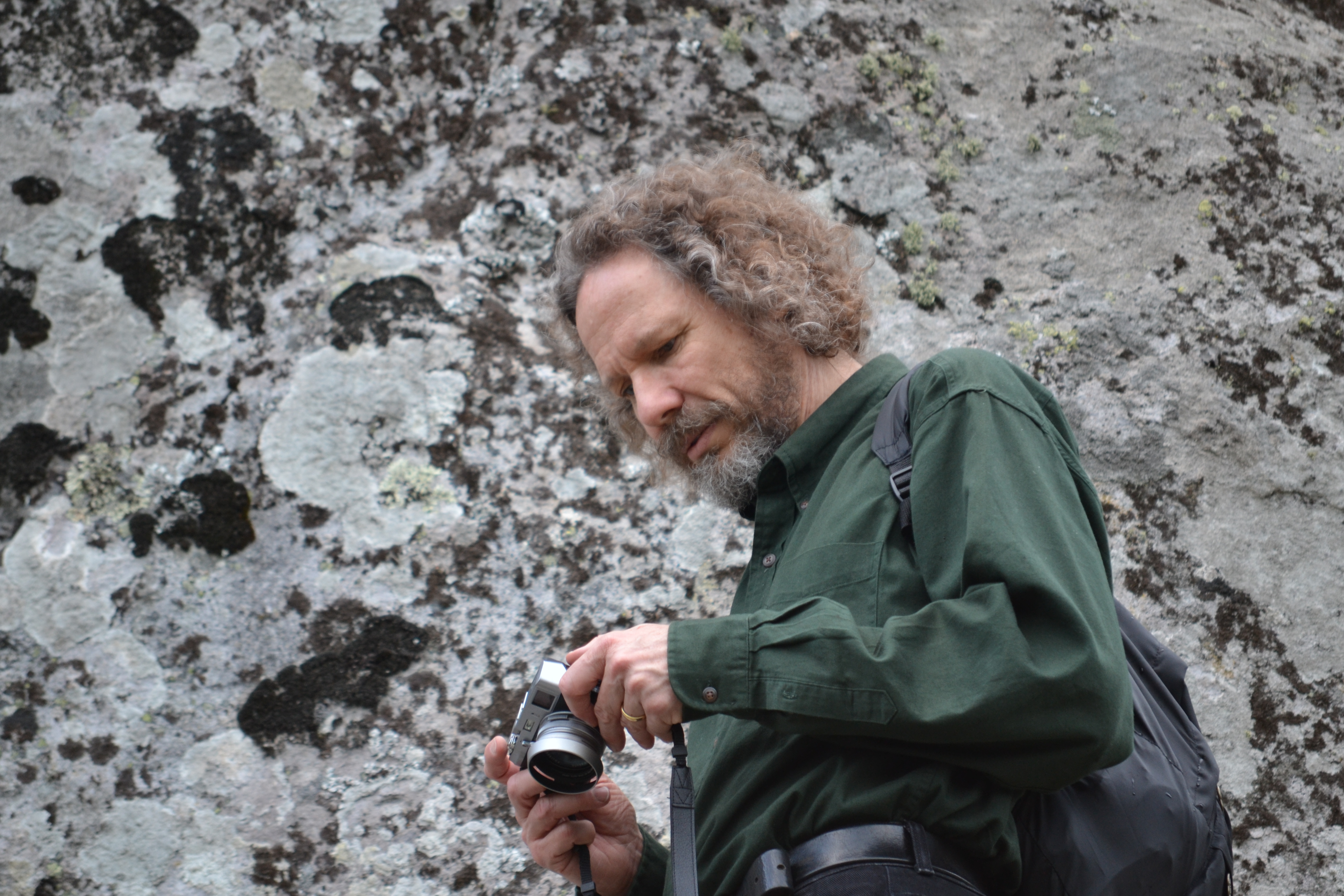 Prof.Robert_Schoh_Belintash_Bulgaria